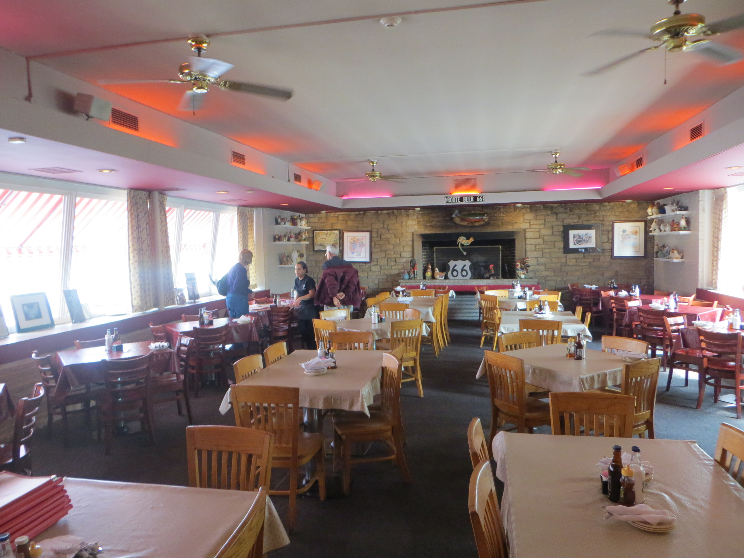 Interior of Dell Rhea's Chicken Basket in Willowbrook, Illinois.